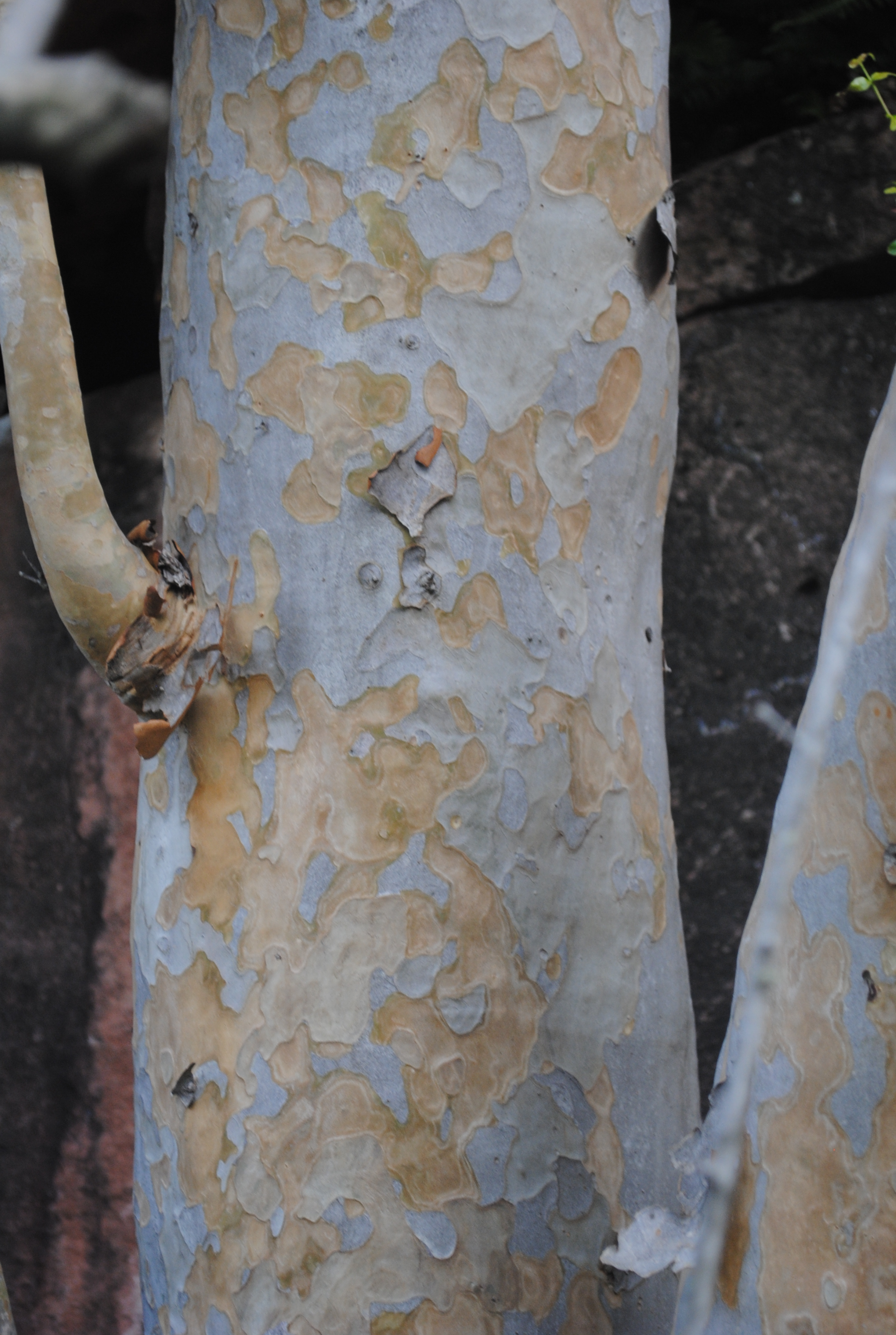 Picture taken at Cerro Colorado Natural Reserve, Córdoba province, Argentina